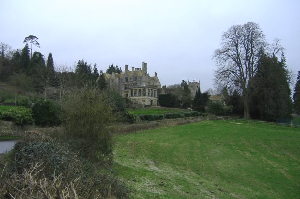 St Catharine's Court